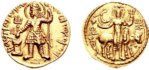 Coin of the Kushan king Vasudeva I